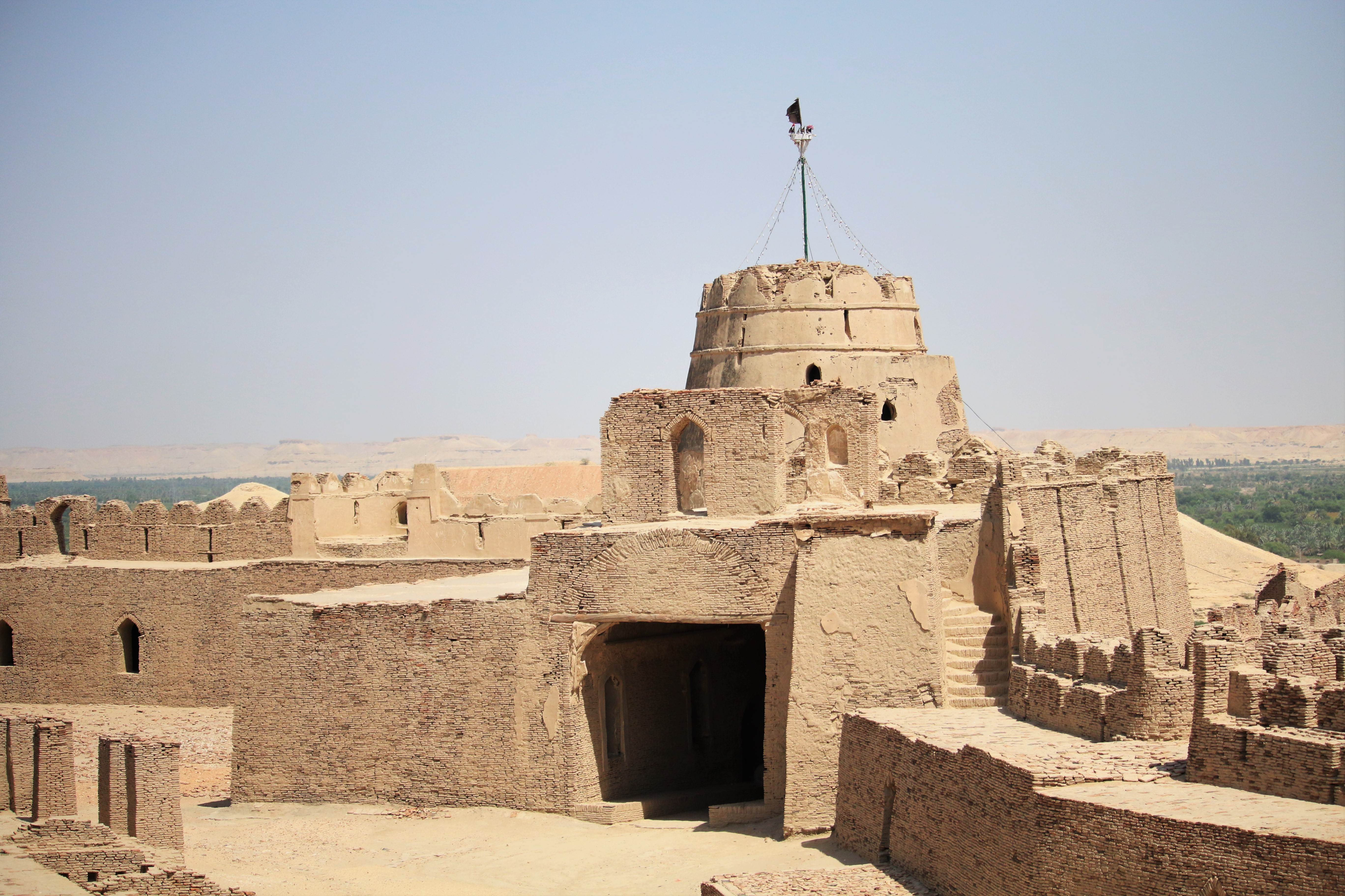 Kot Diji Fort This is a photo of a monument in Pakistan identified as the SD-38